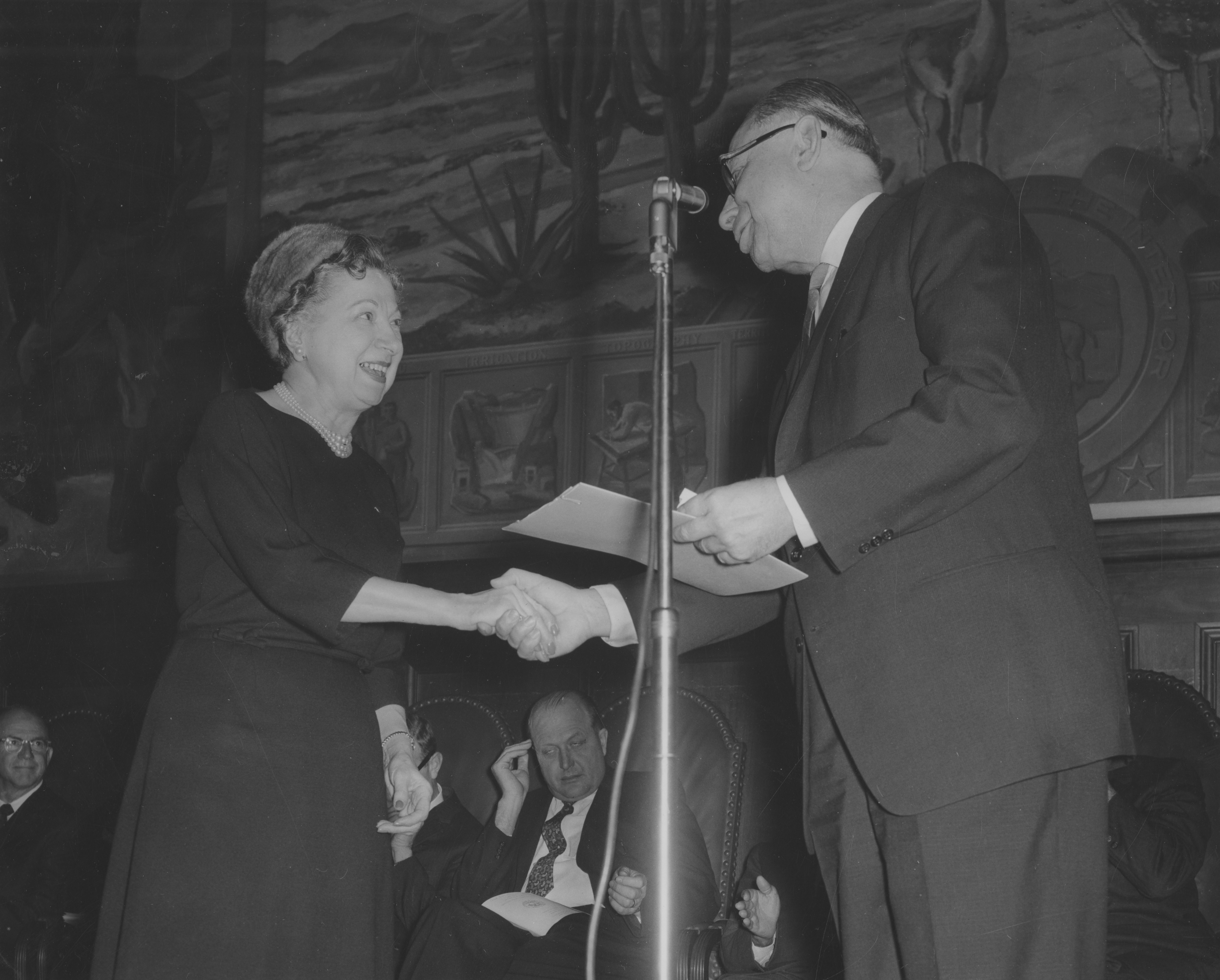 Assistant Secretary of the Interior Frank P. Briggs (1894-1992) presents a citation for distinctive service to Viola Shelly Shantz (1895-1977). She also received the Gold Medal at the Interior Auditorium on that date. Shantz served as a Biological Aide, Biologist, and Systematic Zoologist with the United States Fish and Wildlife Service and its predecessor, the Bureau of Biological Survey, from 1918 to 1961. During her career she served as Curator of the North American mammal collection of the Bird and Mammal Laboratories housed in the National Museum of Natural History